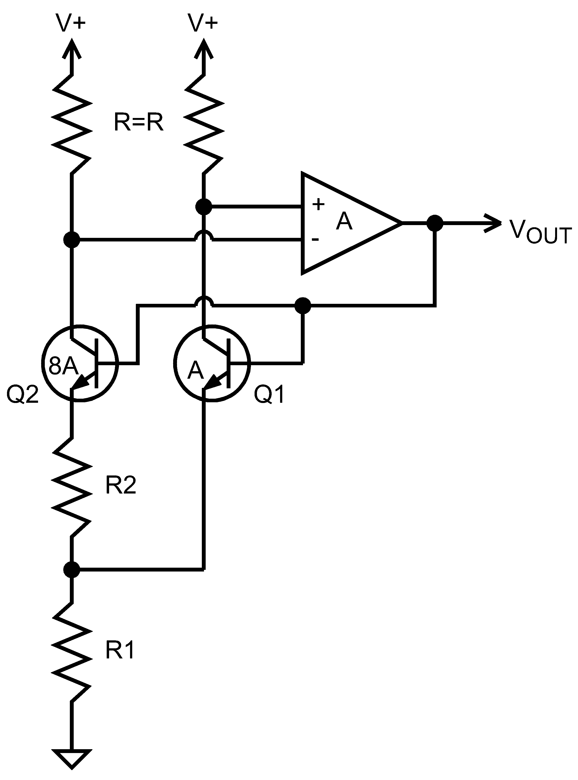 This is a schematic representation of the Browkaw cell bandgap voltage reference.